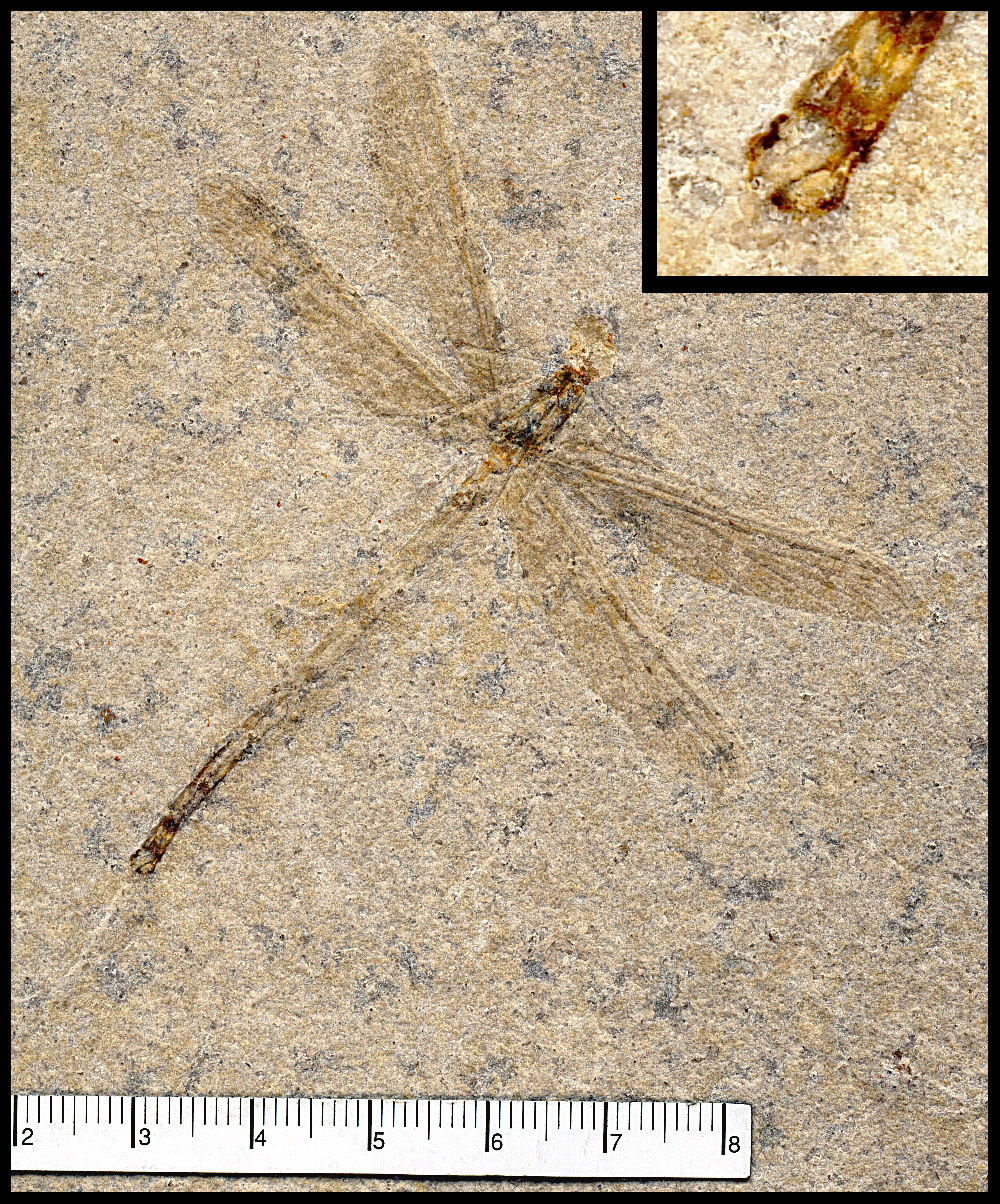 Tarsophlebia eximia (Odonata: Tarsophlebioptera: Tarsophlebiidae), Upper Jurassic, Solnhofen Plattenkalk, male specimen in private collection Spiegelberg (Heidelberg, Germany), showing the spoon-like cerci